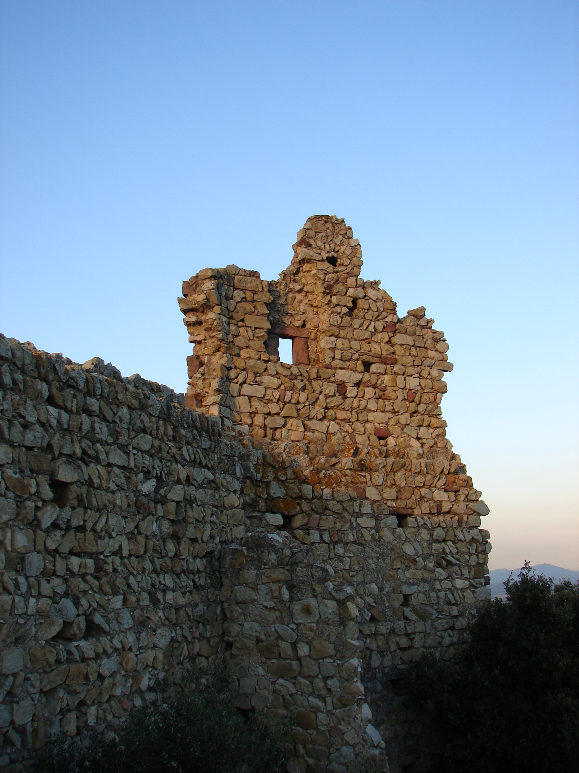 Castell de Montbui